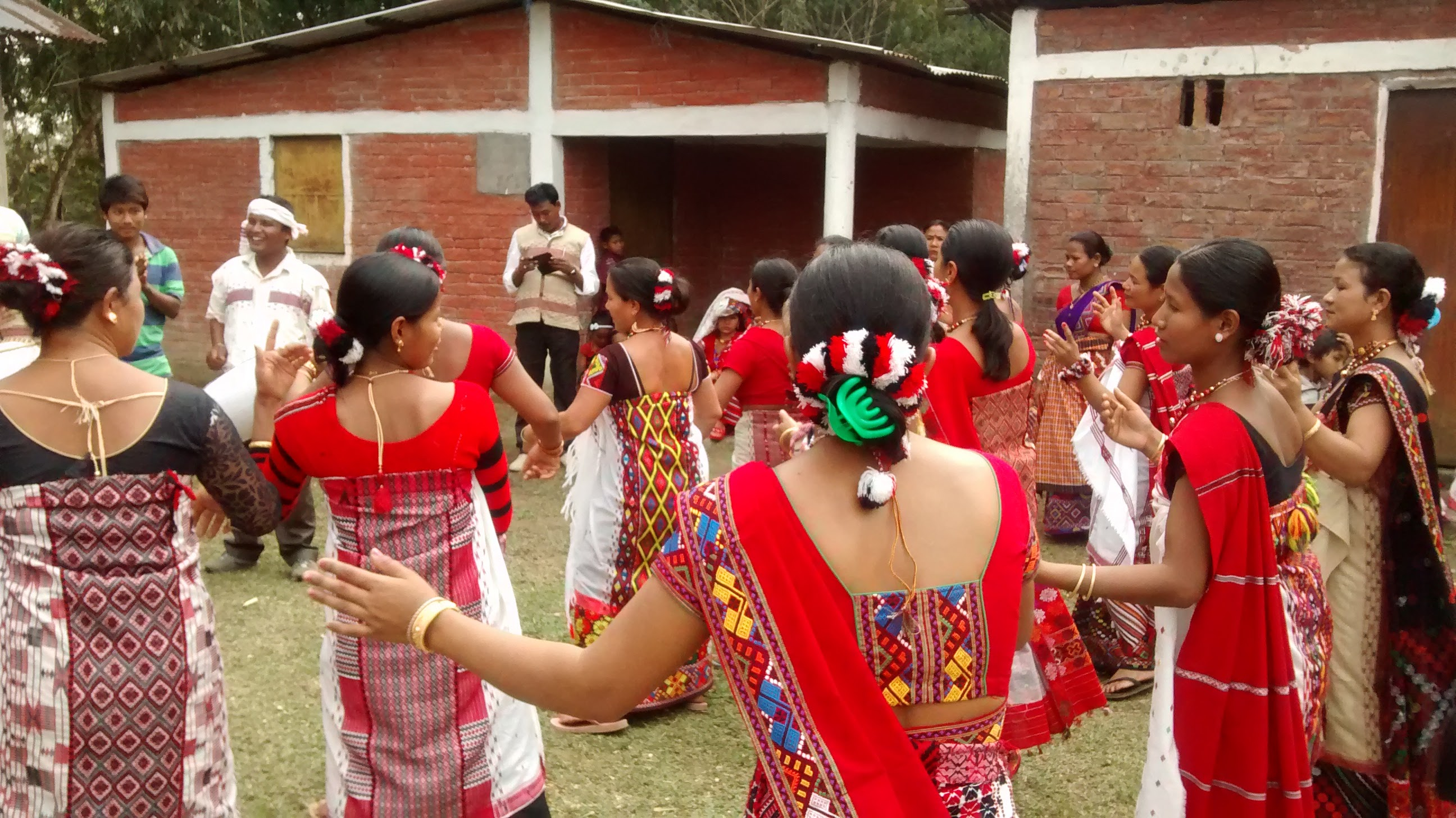 Ali Ayé Lígang is a traditional festival of the Mising people, a community indigenous to the state of Assam in India. In the photo we can see men and women dancing to the tunes of their traditional songs called Oinitom. This photo has been taken in the country: India